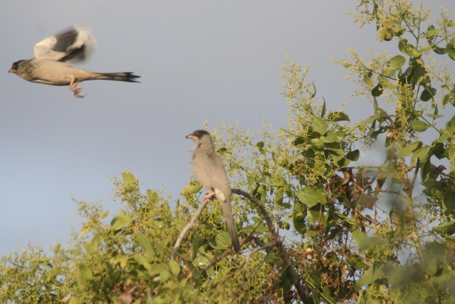 Grey Hypocolius Hypocolius ampelinus is a bird from Middle East visiting Fulay village forest in Kutch district Gujarat India every year since 1990 arrival dates vary from October to November and they live in Kutch feeding on the berries of Salvadora persica (Tooth brush tree) departing in March to April. I have studied them in Kutch and have published two research papers, third is in press. See Grey Hypocolius pictures on Oriental bird images and visit my website